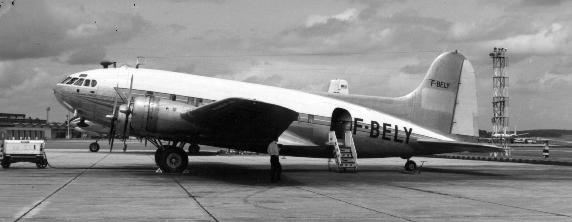 Boeing 307 at Paya Lebar, Singapore in 1967.